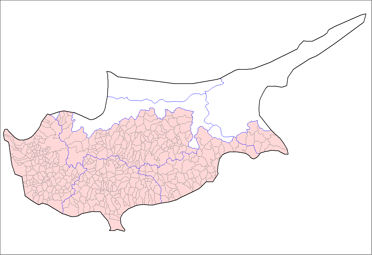 Map of the municipalities of the Greek-controlled area of Cyprus. Created by Rarelibra 18:43, 18 April 2007 (UTC) for public domain use, using MapInfo Professional v8.5 and various mapping resources.